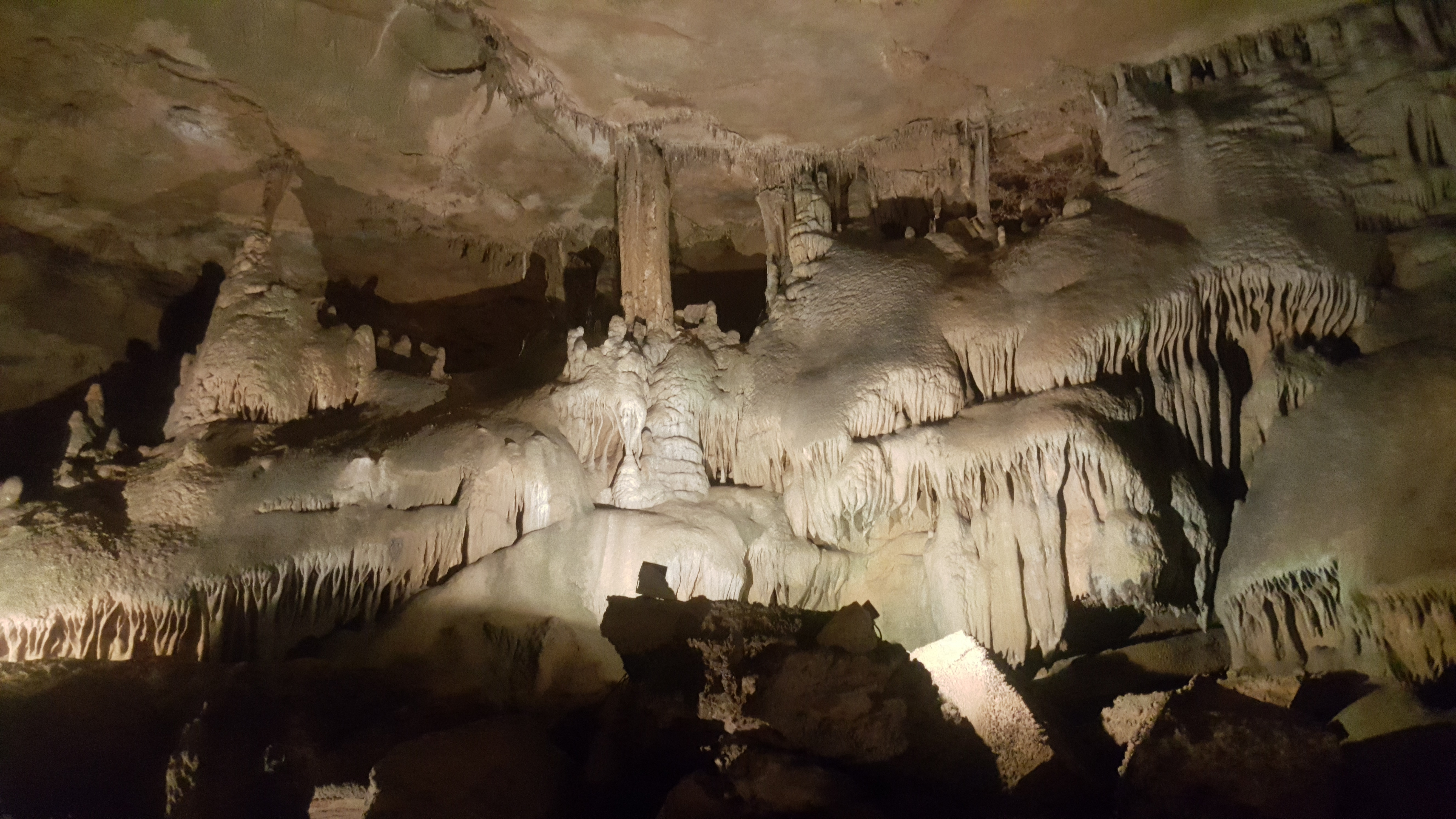 View from center of the Crystal Palace Room, the focal room of the commercial section of Raccoon Mountain Caverns.